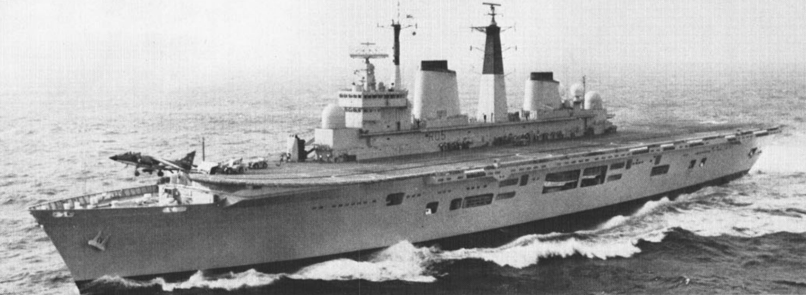 A British Aerospace Harrier FRS.1 takes off from the Royal Navy aircraft carrier HMS Invincible (R05). Invincible, along with the guided missile destroyer HMS Bristol (D23), dry stores ships RFA Fort Grange (A385) and RFA Fort Austin (A386), and the replenishment oiler RFA Tidepool (A76) visited Norfolk, Virginia (USA), and participated in fleet exercise "Ocean Venture".